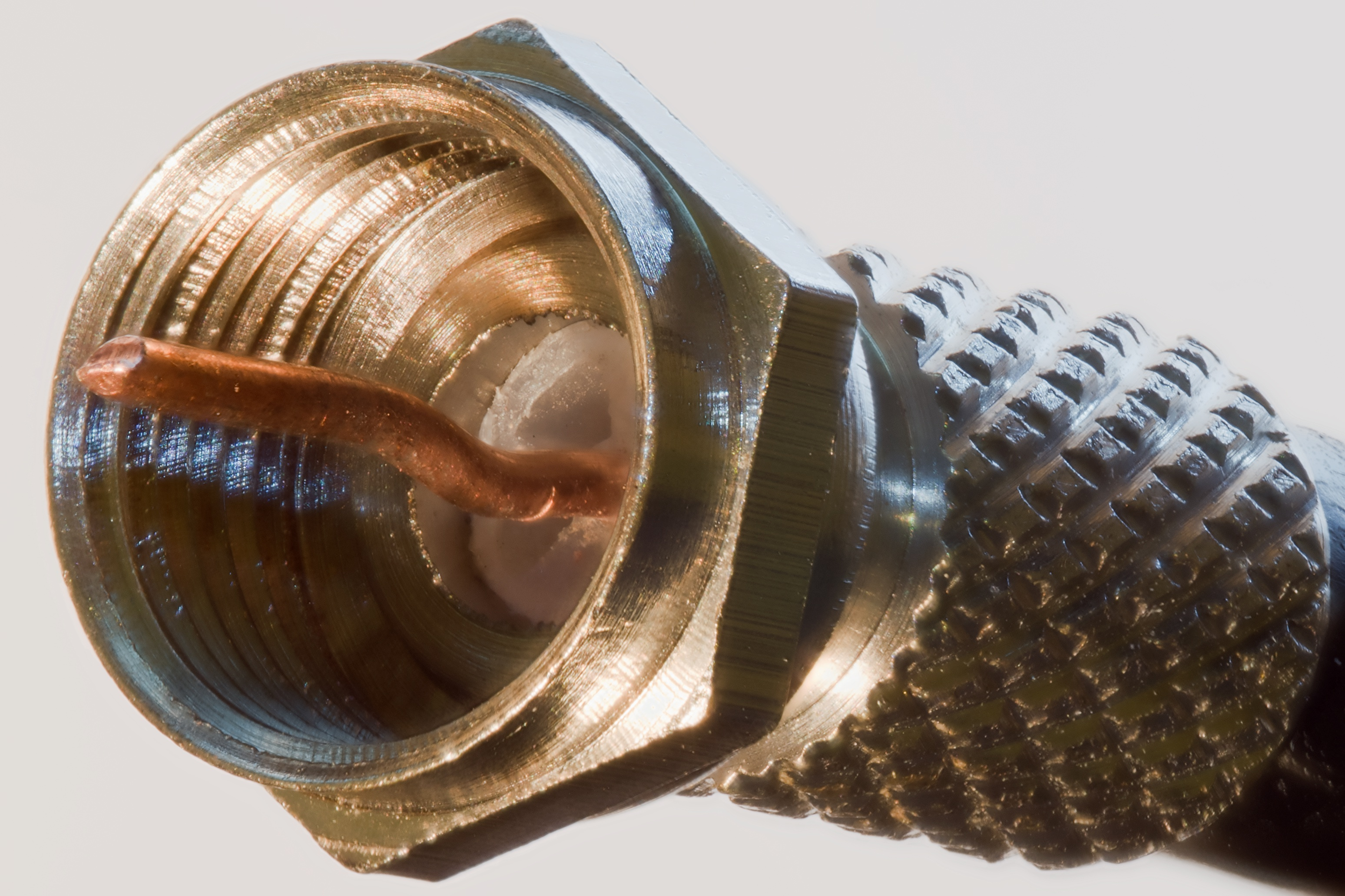 An F connector attached to a black coaxial cable. Used for TV aerial and satellite dish connections to a TV or set top box. The image is produced from 32 images that are focus stacked using CombineZP.